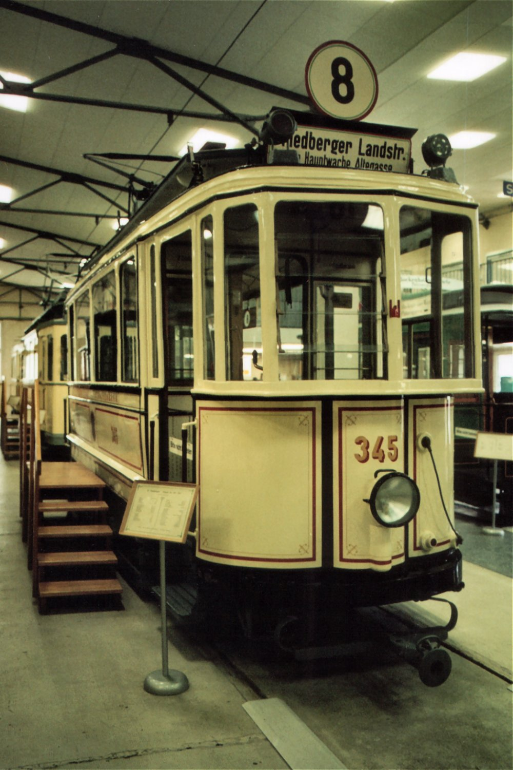 Car No. 345 of Frankfurt tramway at Frankfurt traffic museum, Germany.